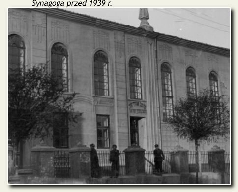 Photograph of new synagogue in Bełchatów (Poland) before 1939